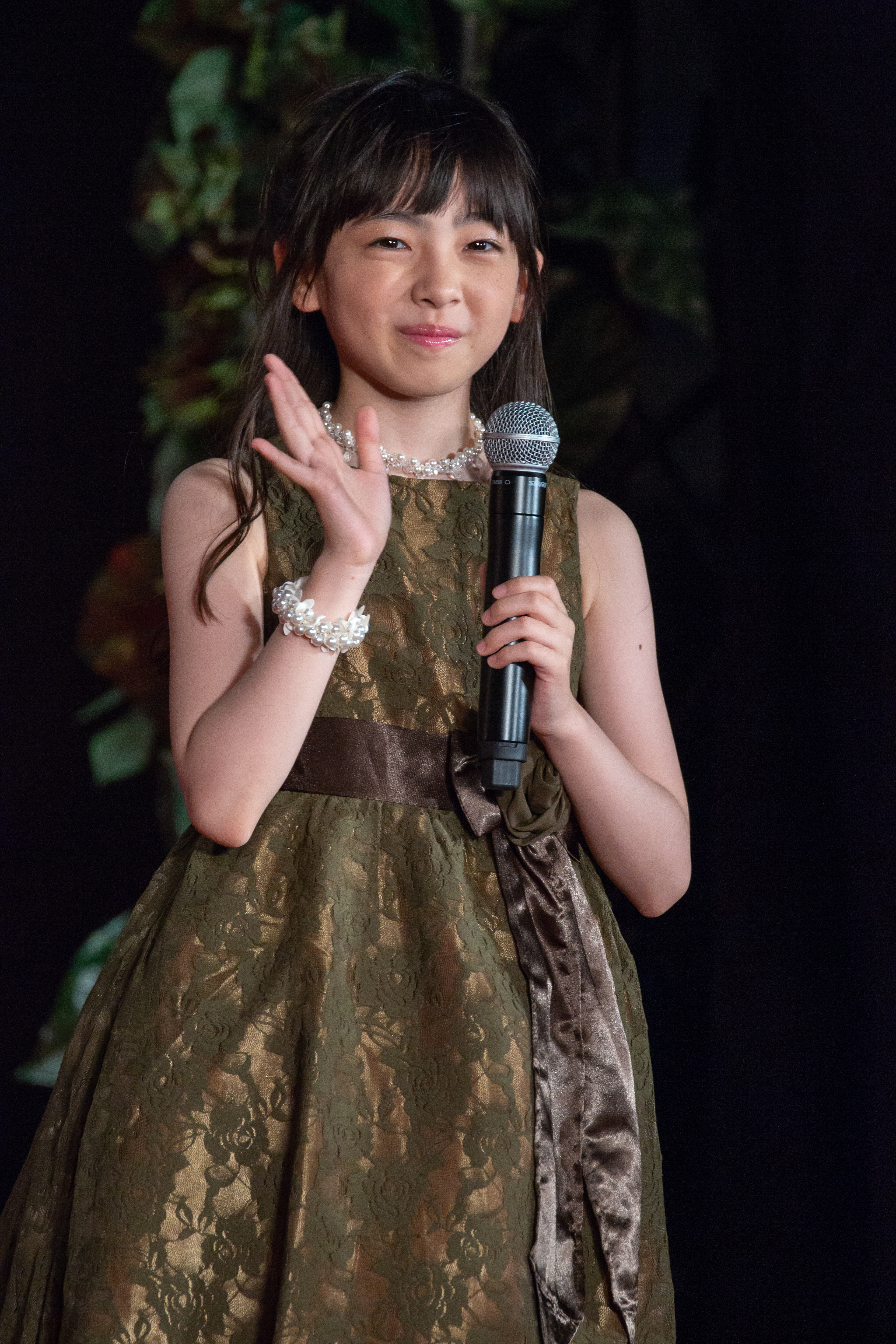 Moeno Sumida at Jurassic World Fallen Kingdom Japan Premiere Red Carpet on June 27, 2018.